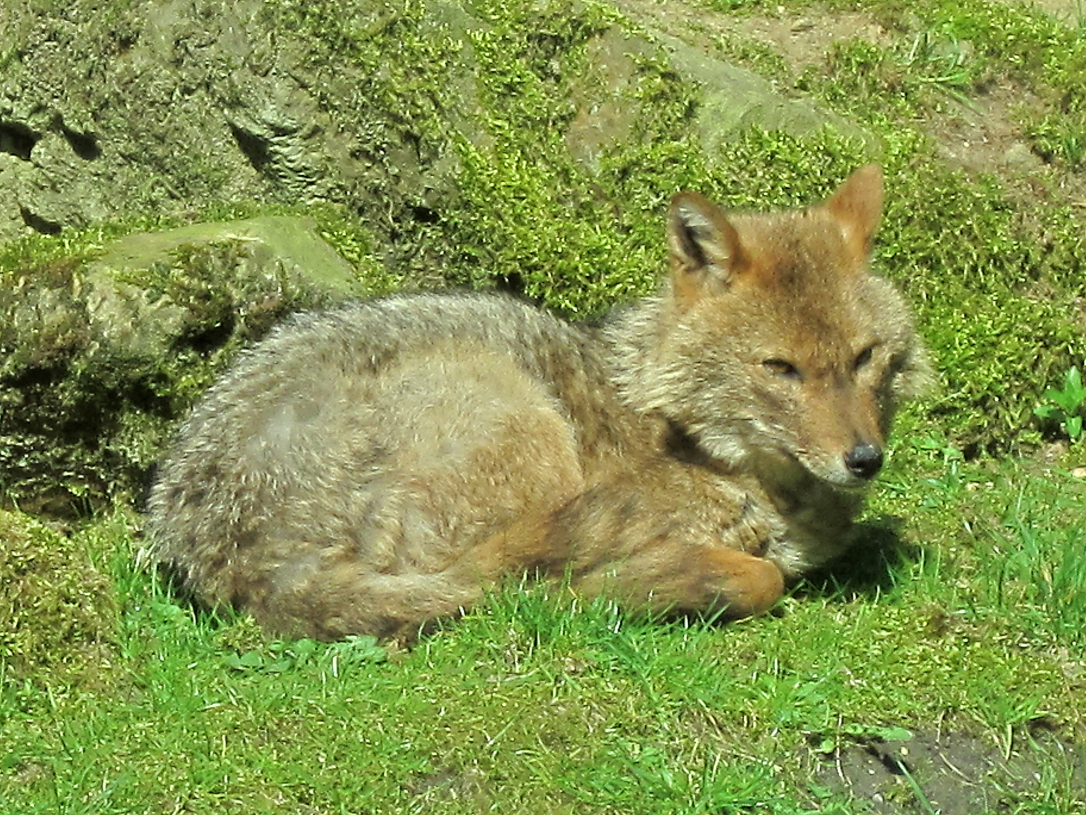 Canis aureus moreotica (Golden jackal), Burgers zoo, Arnhem, the Netherlands